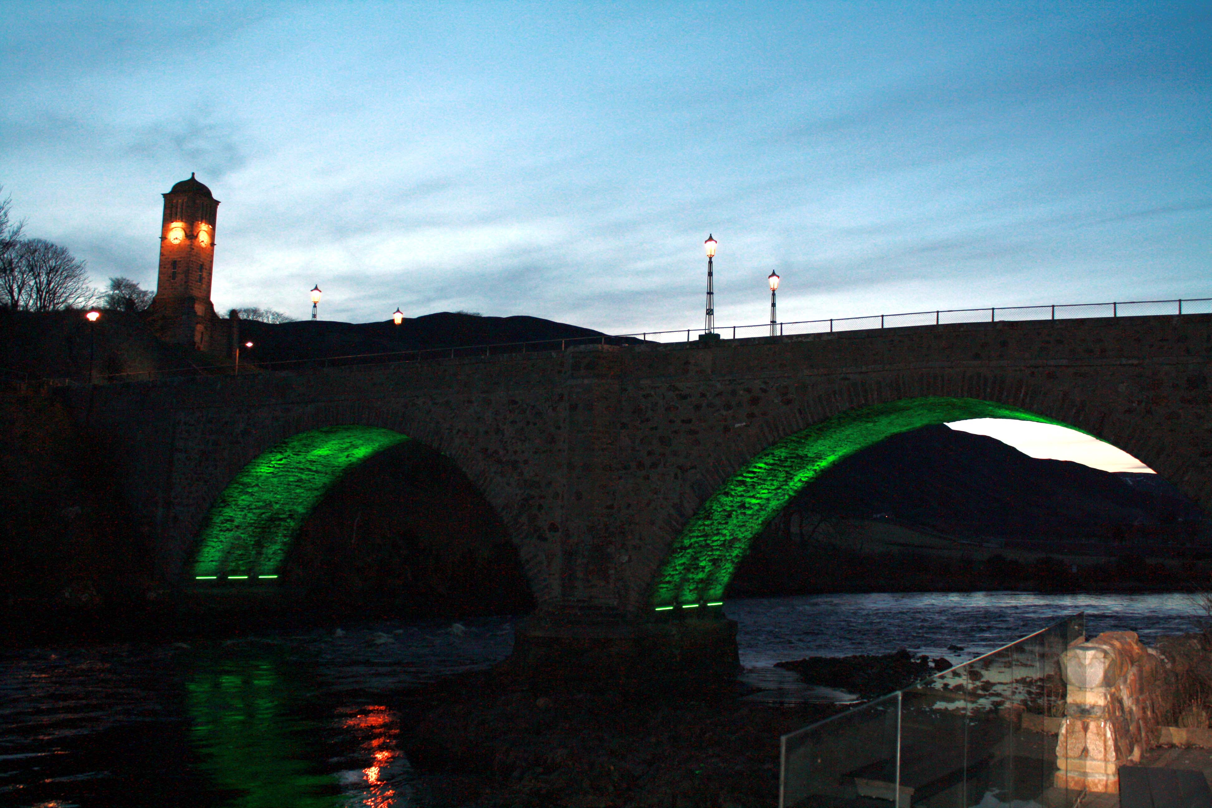 Old bridge, Helmsdale The old A9 bridge in Helmsdale, lit up in the early evening with green spot lights.